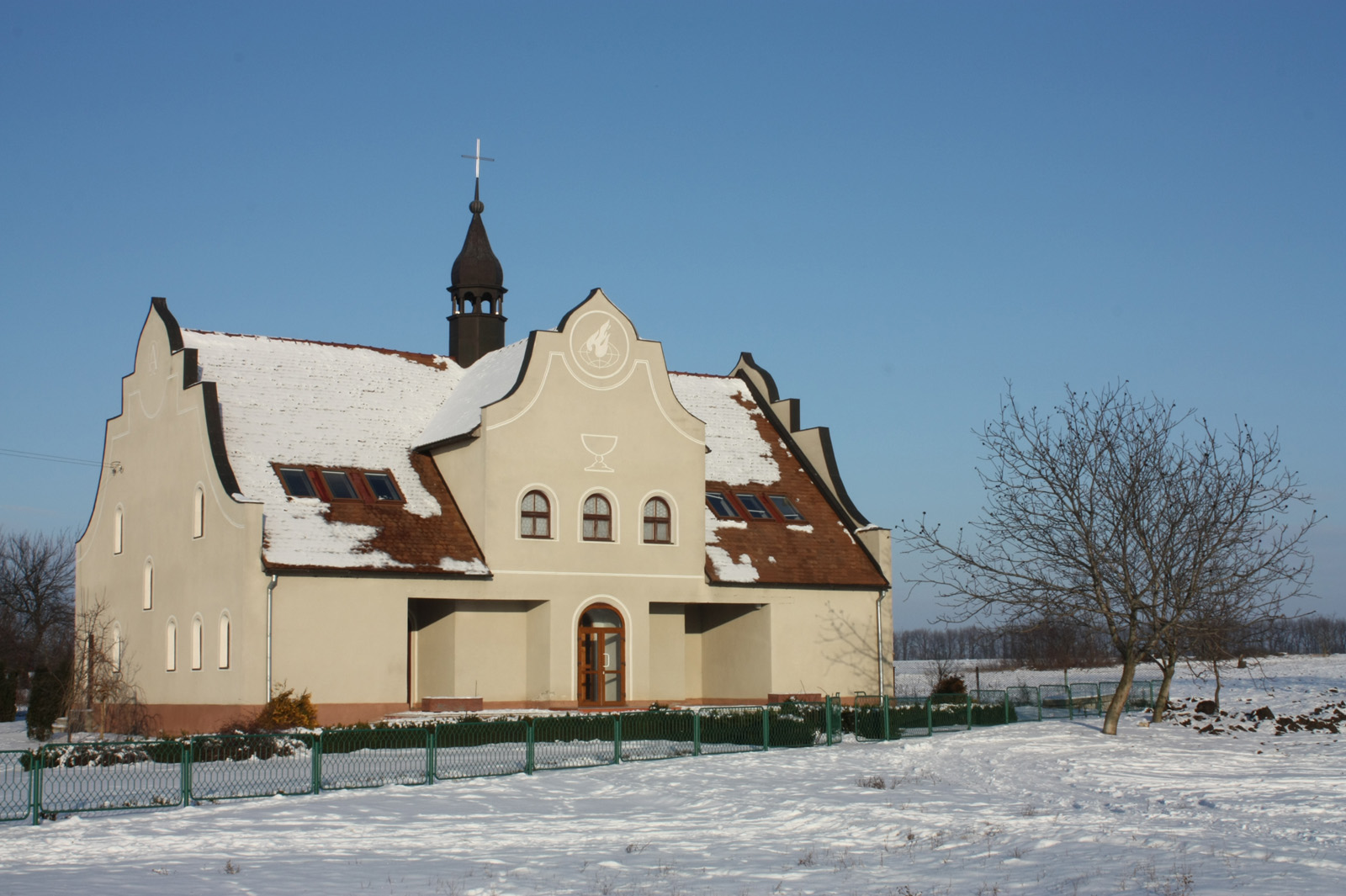 The Bethlehem Chapel at Bohemka, Ukraine